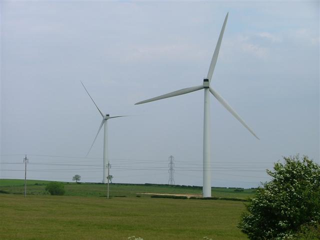 Wind Turbine, Elwick.